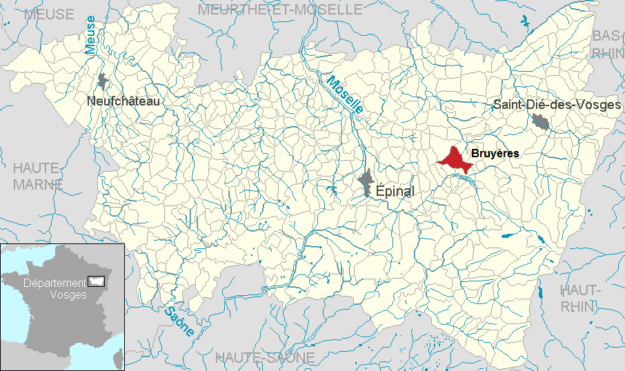 Bruyères in the department of Vosges, Lorraine, France